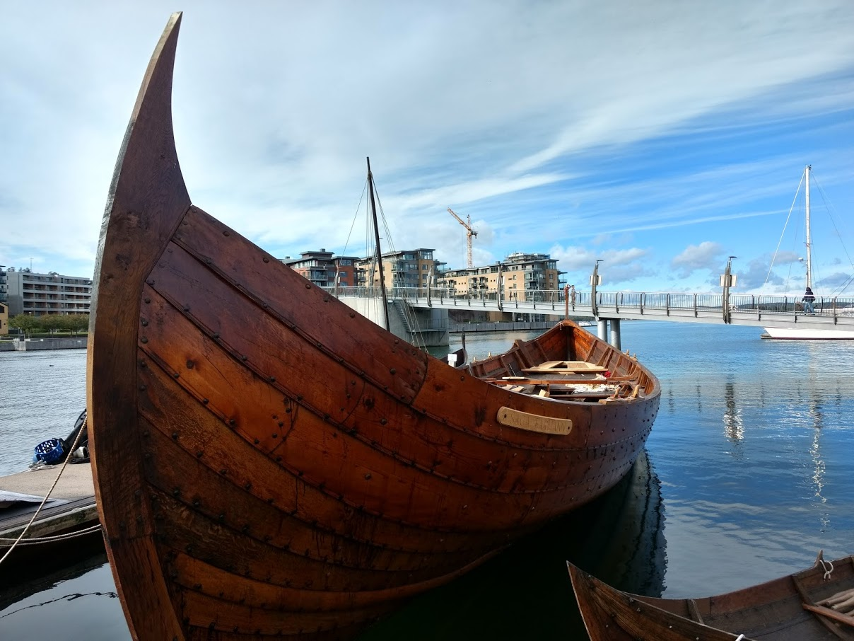 "Saga Farmann" is an exact replica of the knarr (Norse merchant ship) "Klåstadskipet", tree-ring dated to 988. Stiftelsen Nytt Osebergskip built "Saga Farmann" with original methods and launched the ship in Tønsberg 6. September 2018.